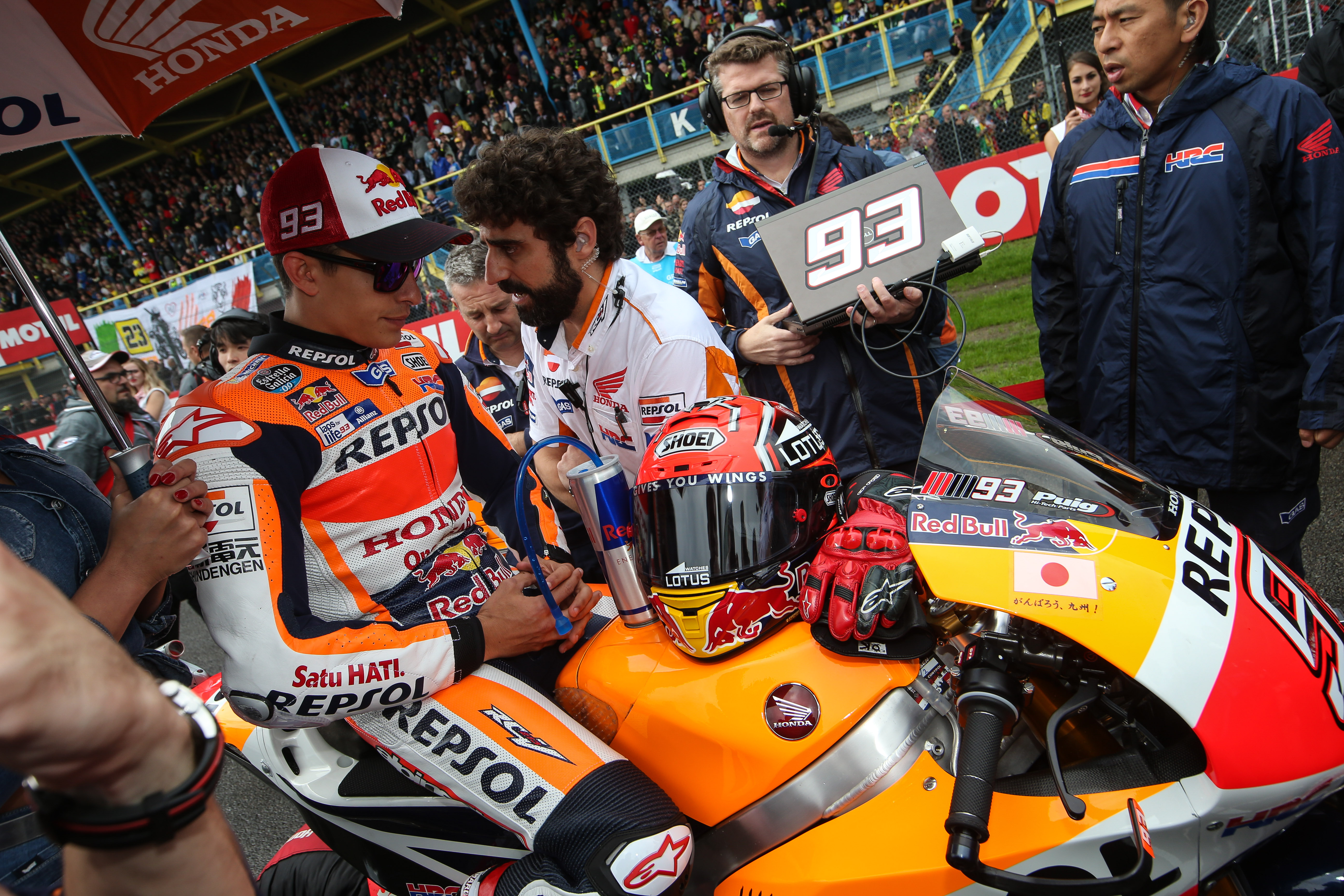 Marc Marquez in Netherlands 2016